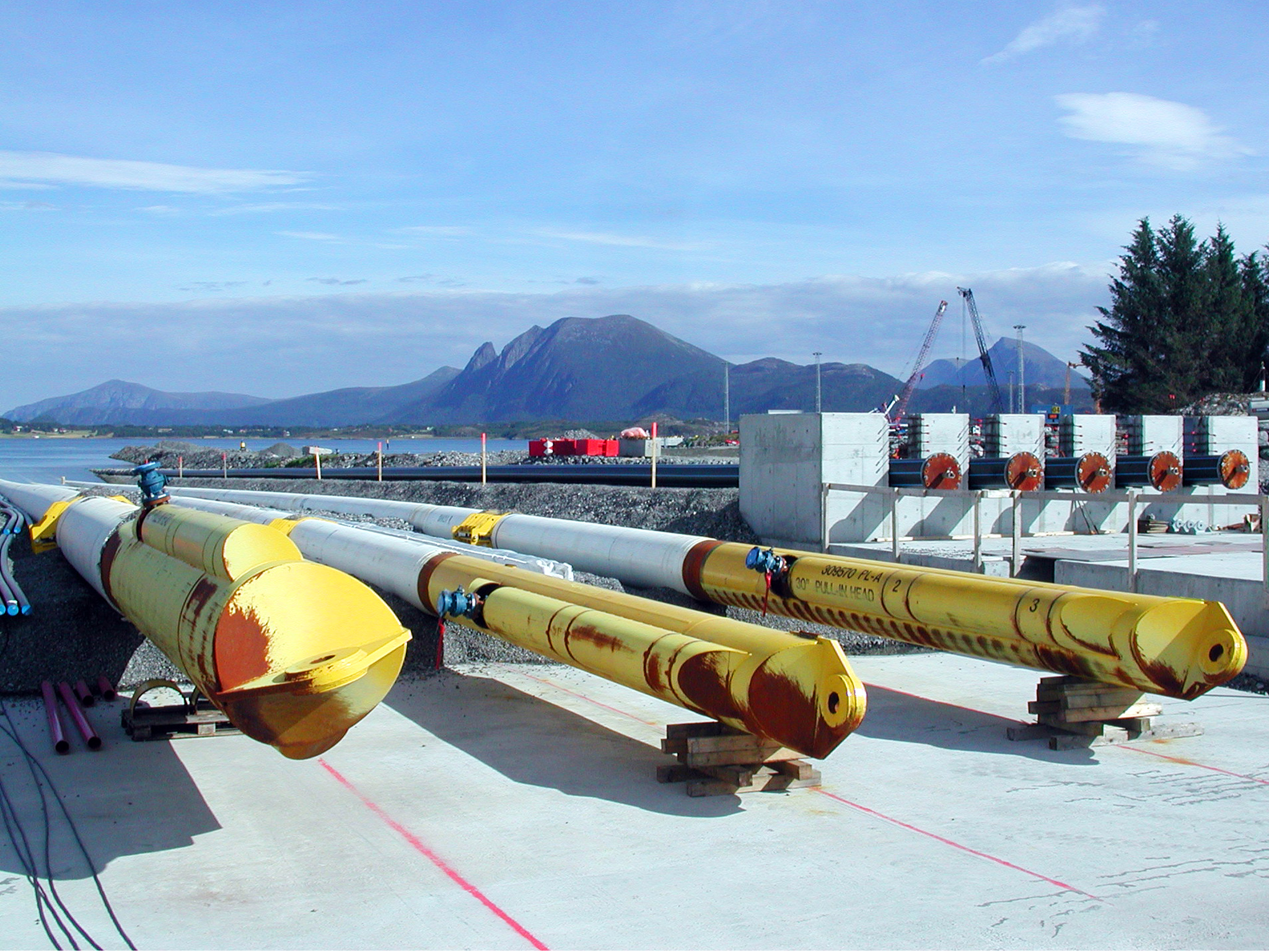 The pipes with natural gas from the Ormen Lange field, before being connected to the gas terminal on the island Gossa in Aukra.